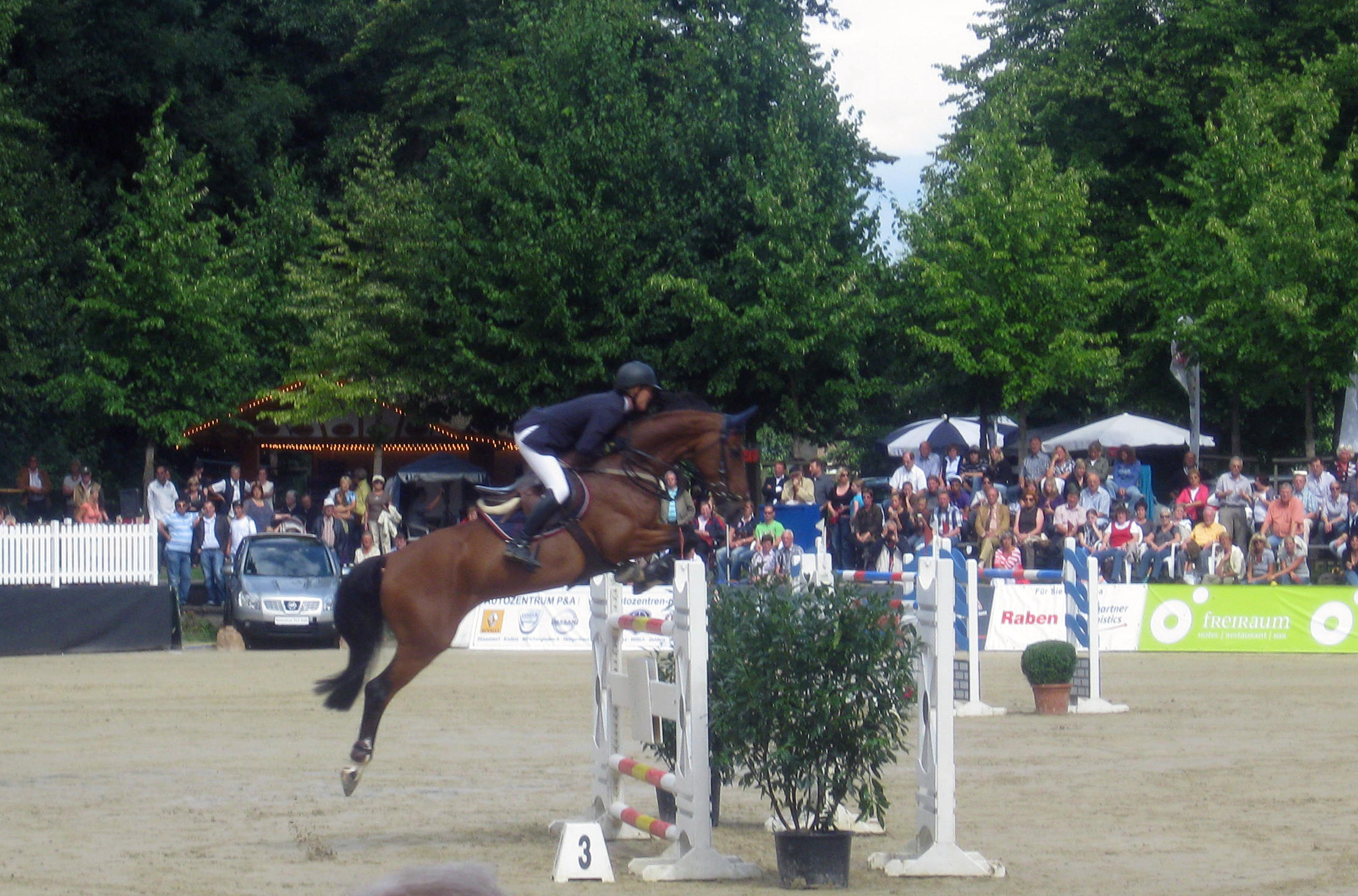 Horse jumping at the Schlossparkturnier in Wickrath